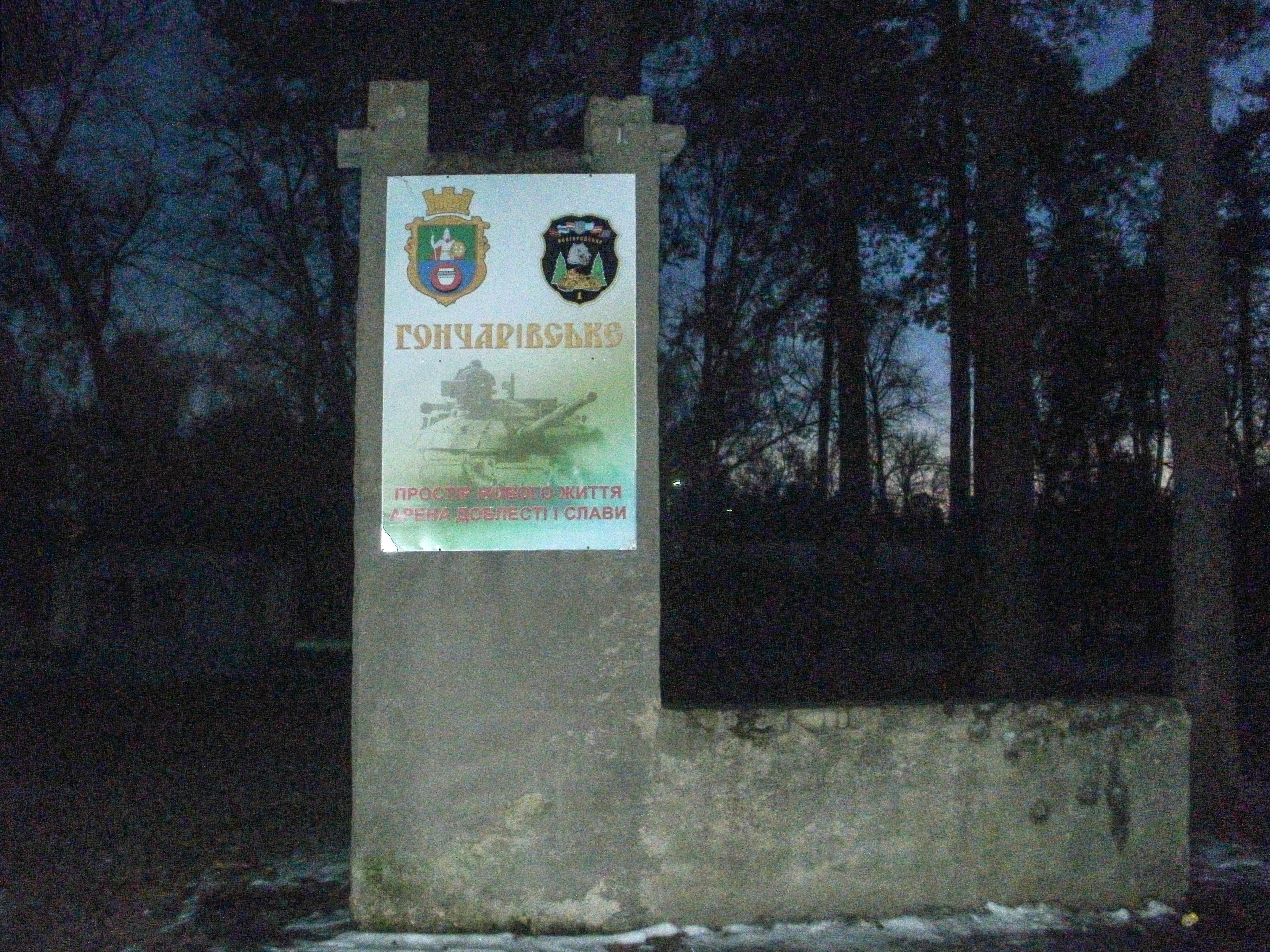 little town Honcharivske, Chernihiv Raion, Chernihiv Oblast, Ukraine